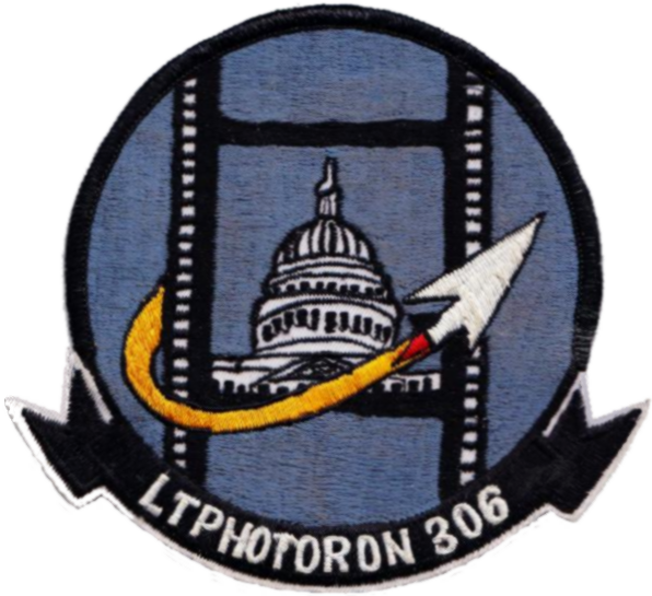 Insignia of the U.S. Navy Reserve Photographic Reconnaissance Squadron 306 (VFP-306).